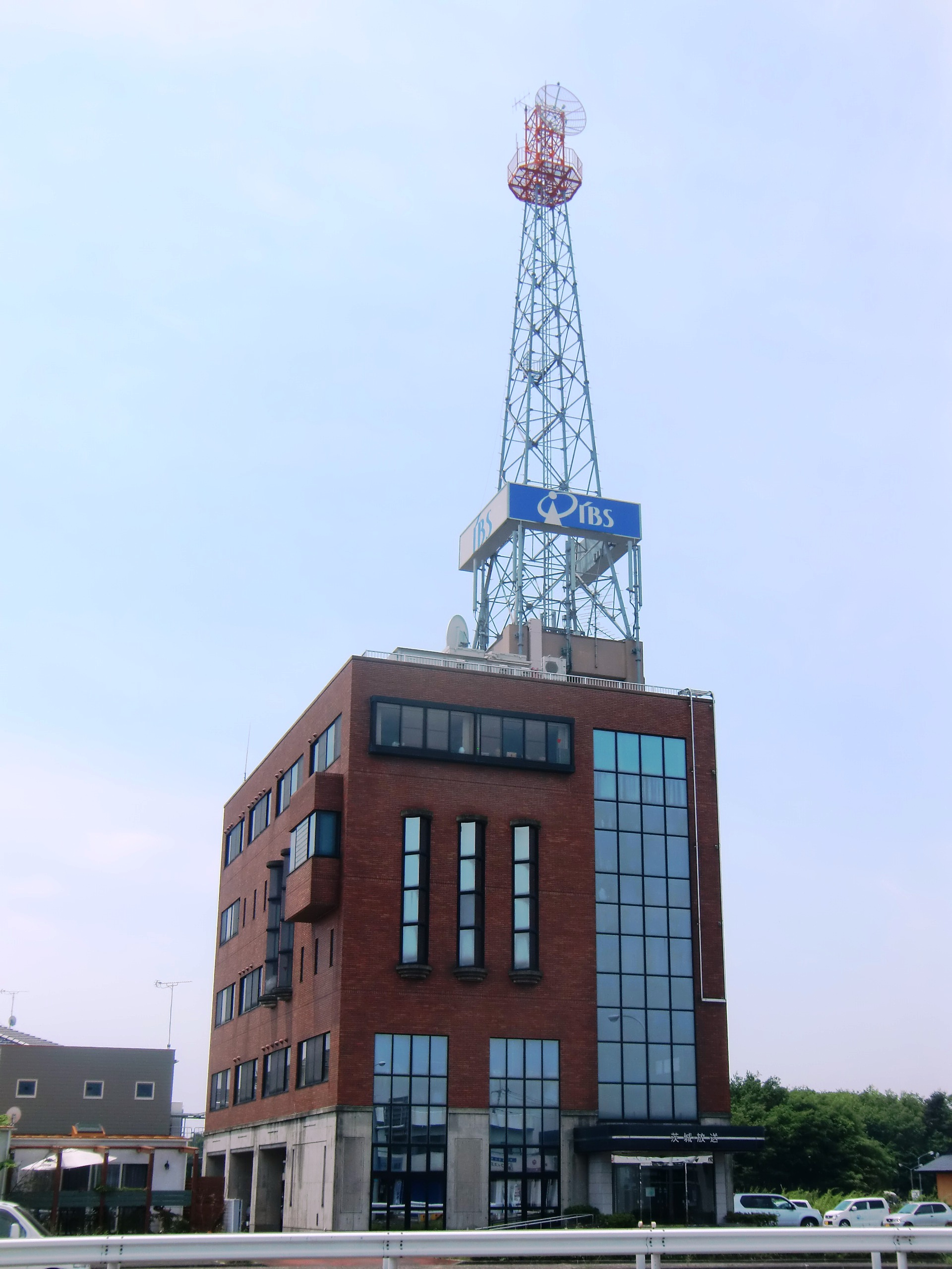 IBS, Ibaraki Broadcast System headquater in Mito city, Ibaraki prefecture, Japan.